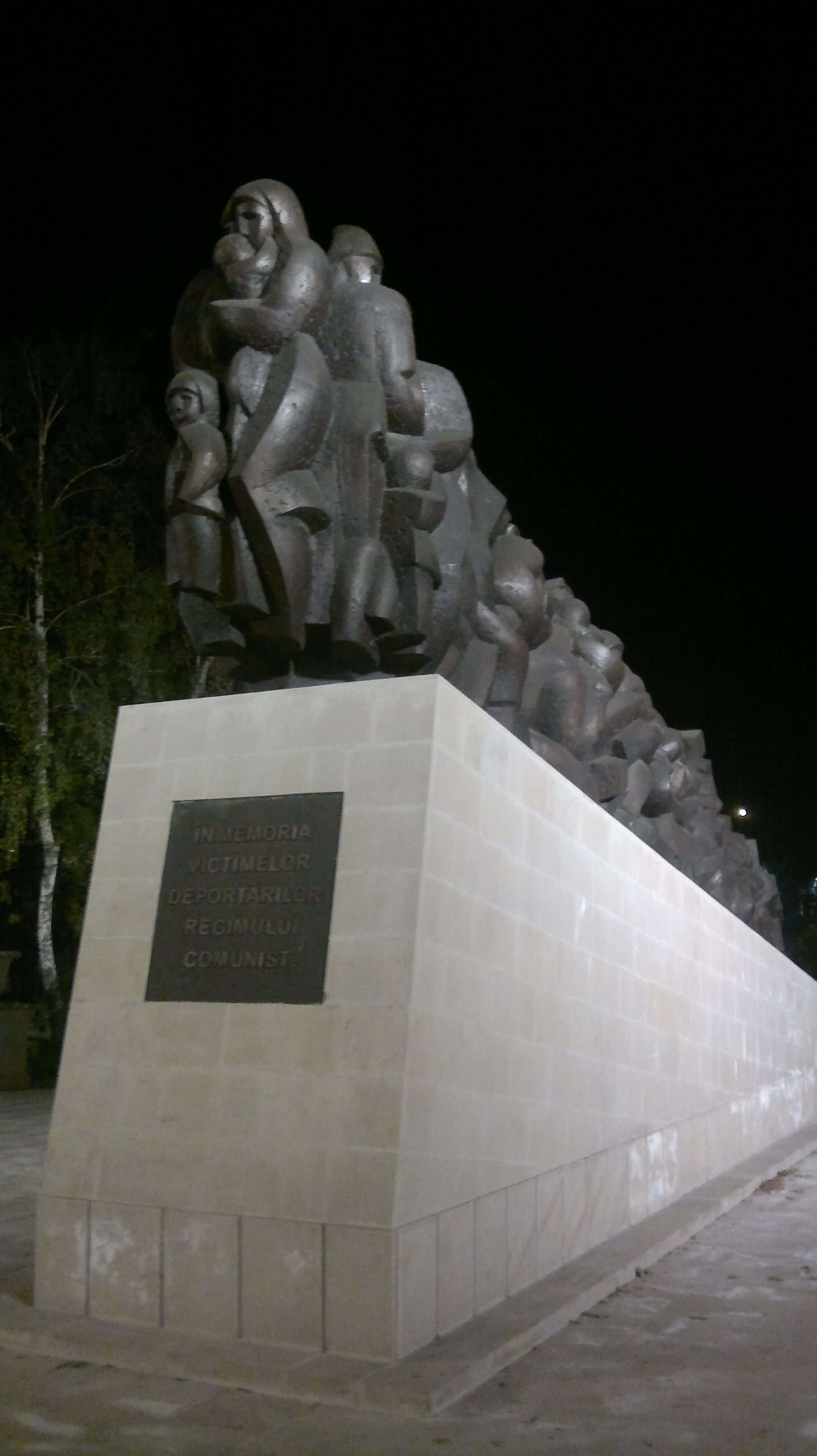 The Train of Pain, Chișinău - the monument to the victims of communist mass deportations in Moldova.